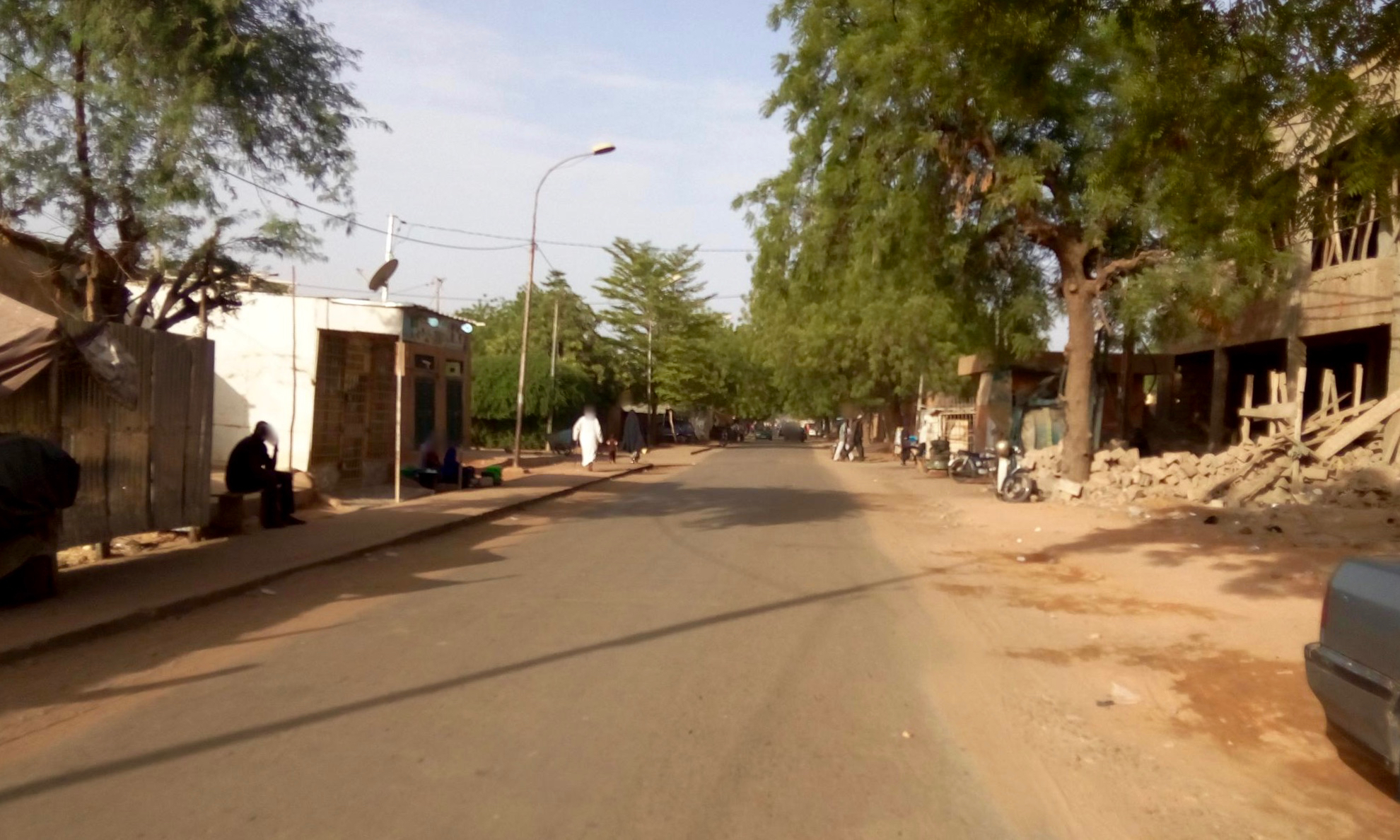 Rue du Togo in Kalley Est, Niamey.